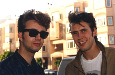 Subject: Pim Jones and Grahame Skinner of Hipsway Date: 1986 or 1987 Place: Outside Wolfgang's (nightclub) in San Francisco, California, USA Photographer: Andwhatsnext Original 35mm photograph scanned Credit: Copyright (c) 1986-7 by Nancy J Price